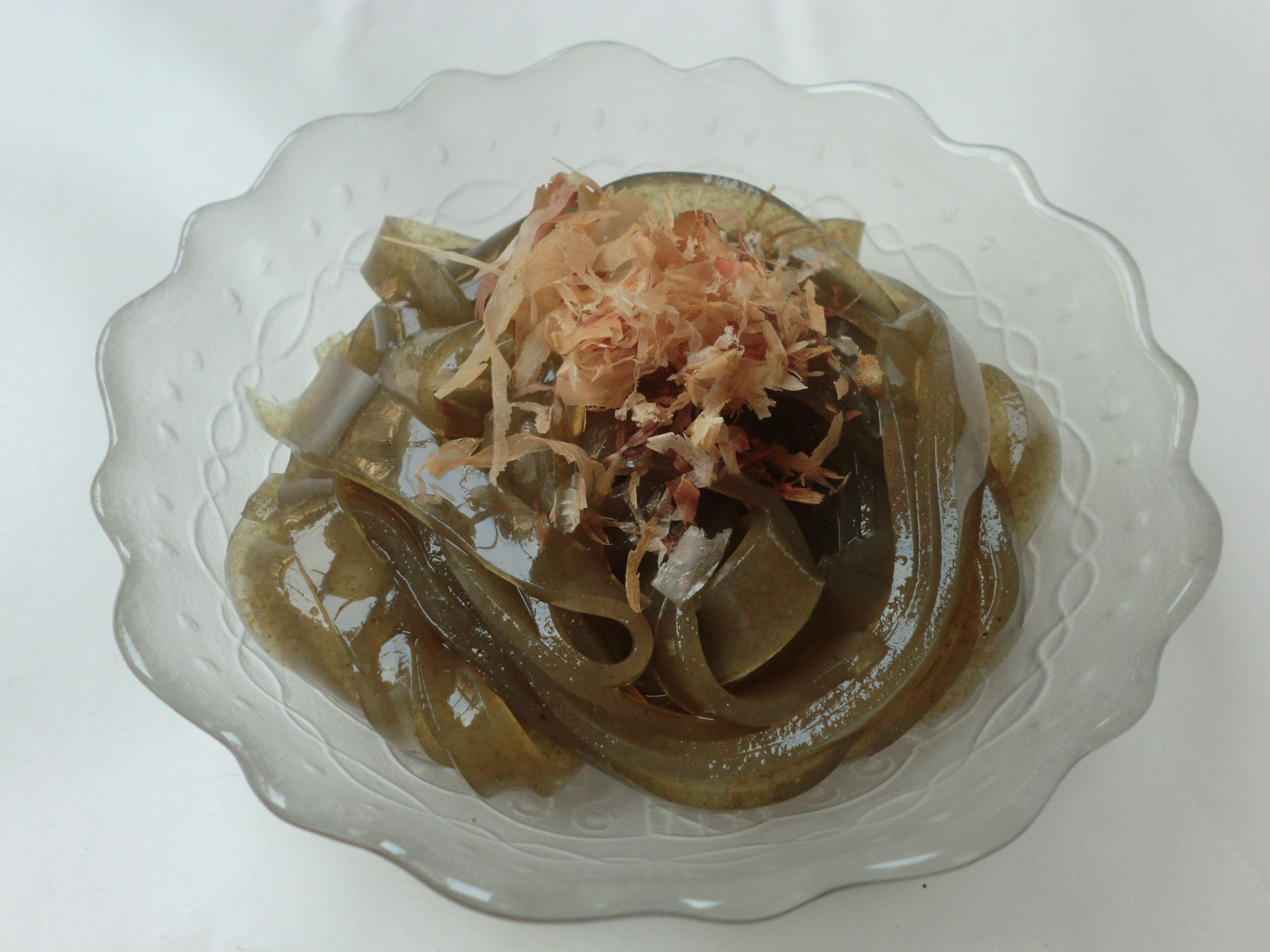 "Okyuto"(jelly-like food made from seaweed), local cuisine of Fukuoka prefecture,Japan.